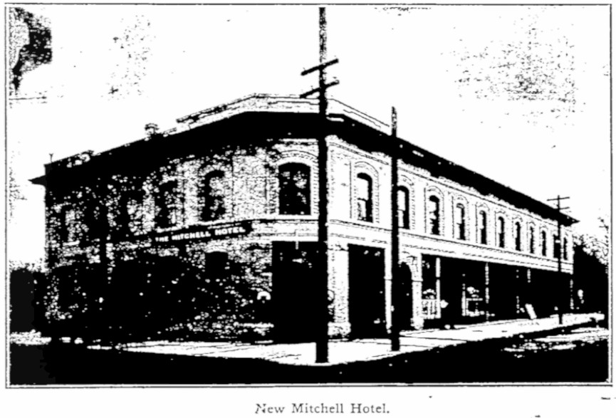 The Mitchell Hotel (1906) at the corner of 10th and Front Streets in Boise, Idaho, was designed by Tourtellotte & Co. and was listed on the National Register of Historic Places in 1982. The building was demolished and replaced by a parking lot sometime later.